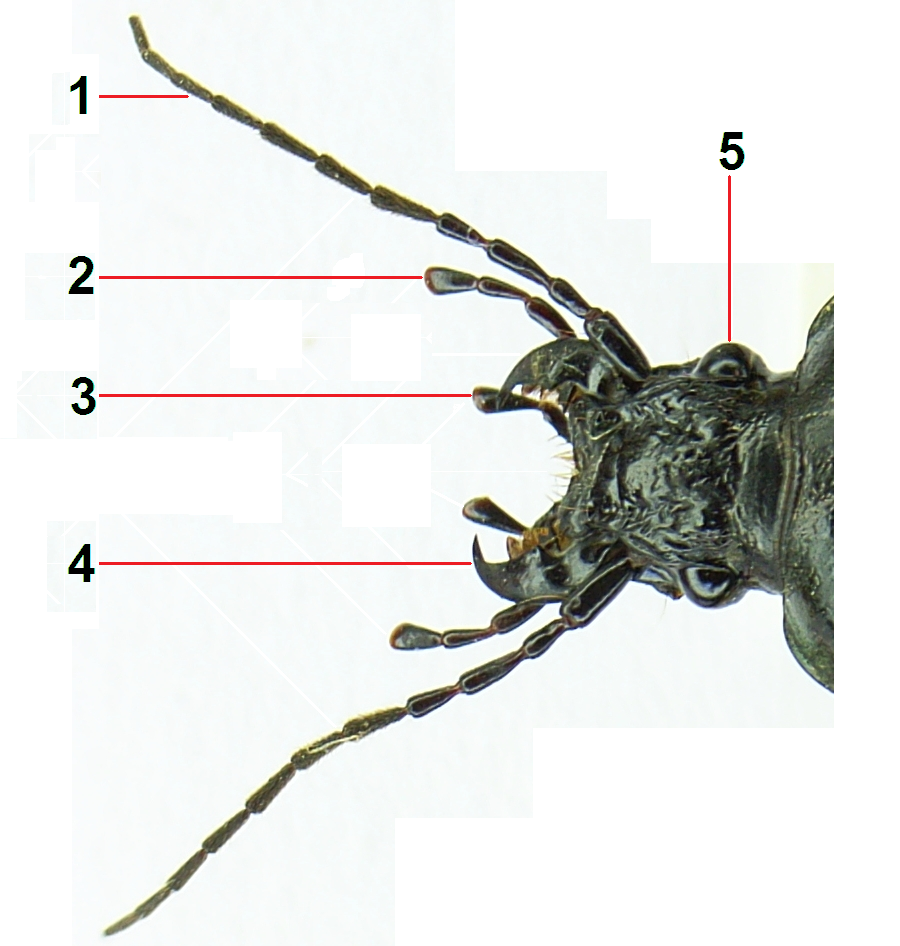 Female of Carabus nemoralis